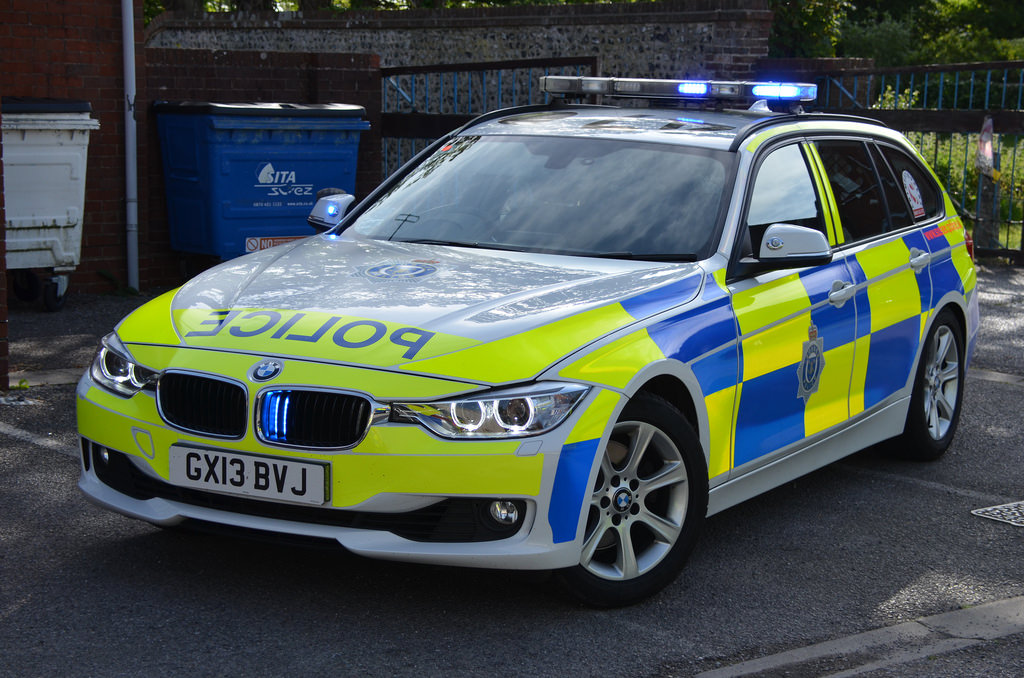 A Sussex Police BMW 330d